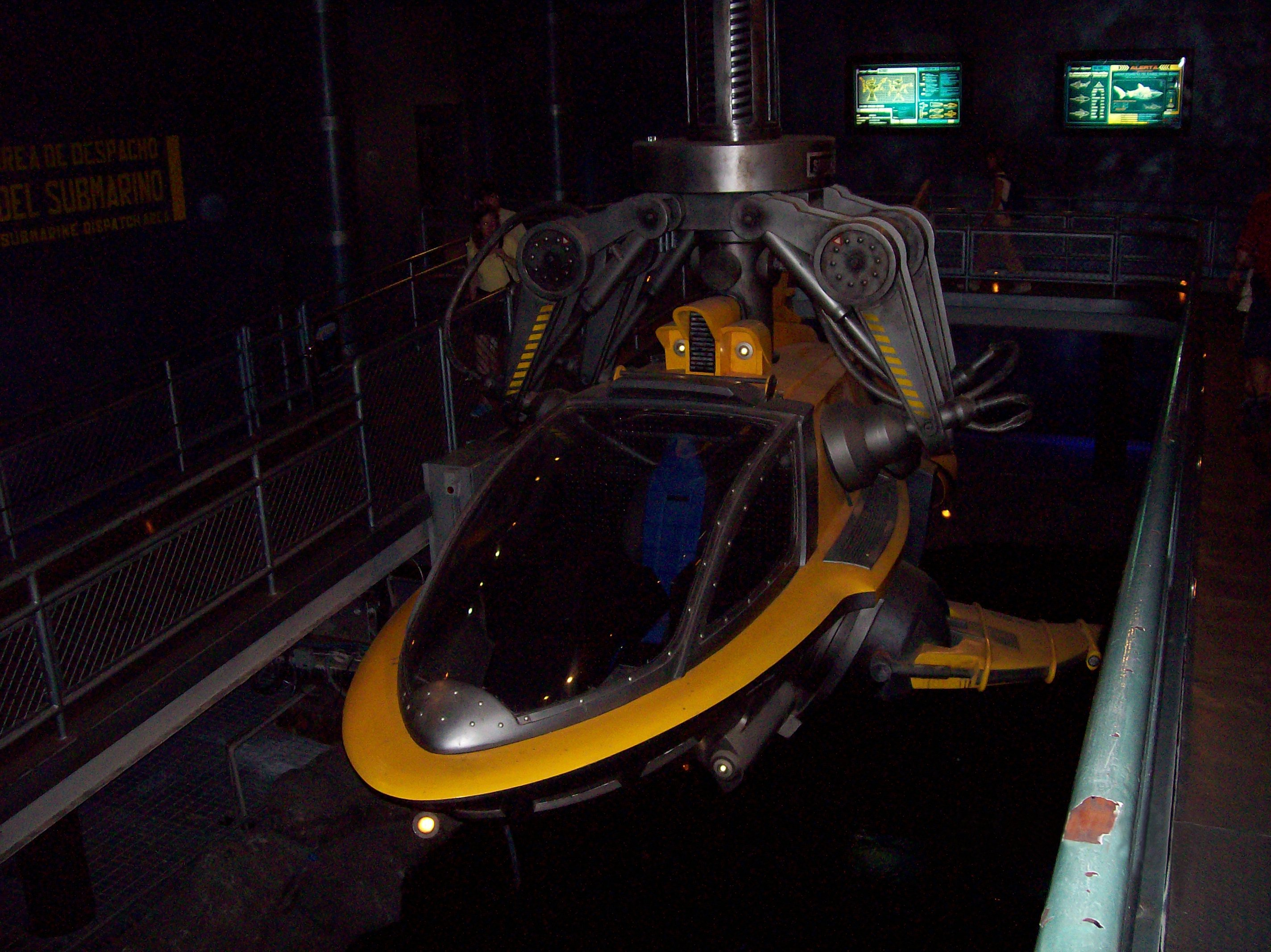 The submarine Seafari in Sea Odyssey (Port Aventura)